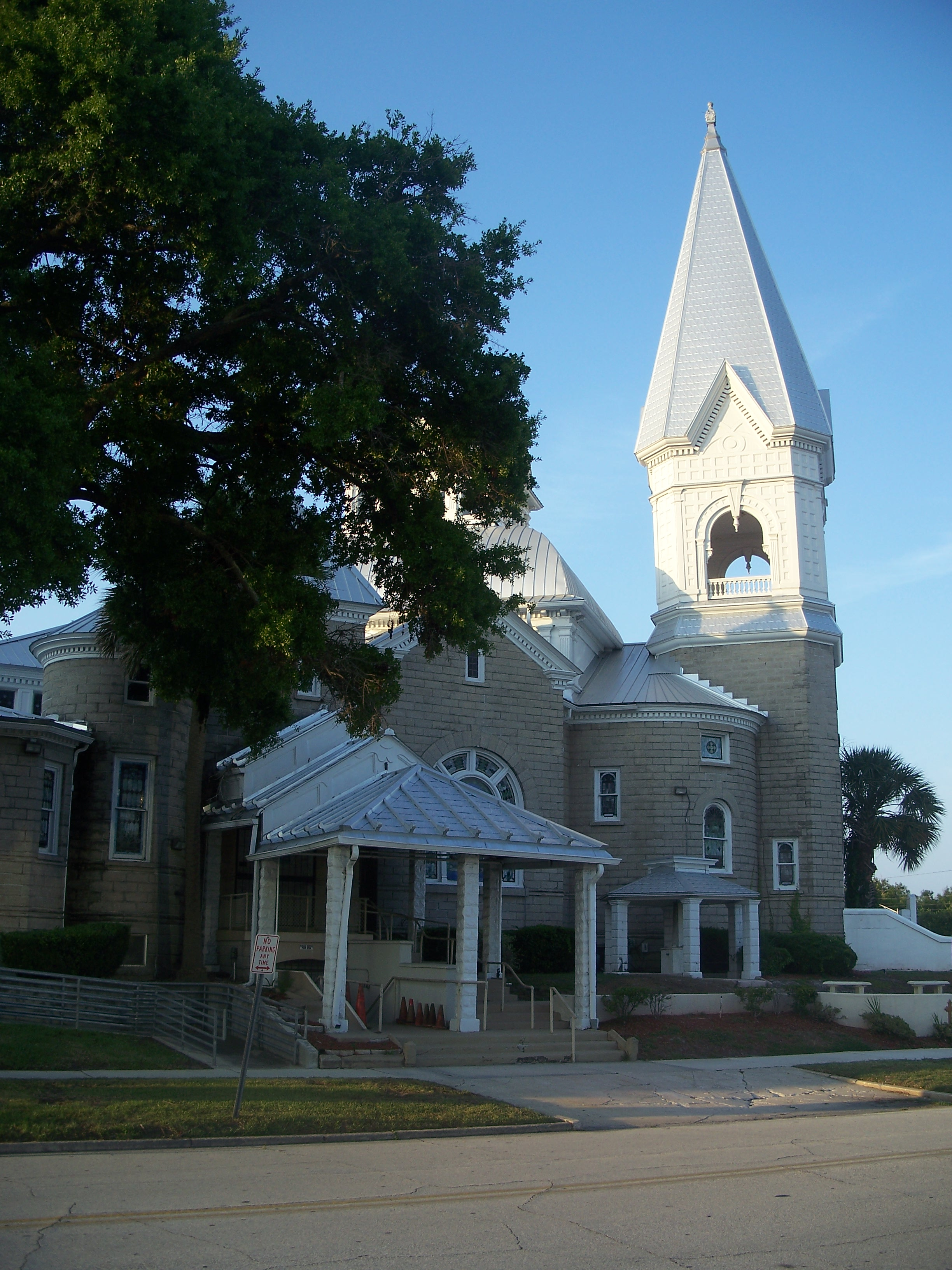 Jacksonville, Florida: Bethel Baptist Institutional Church